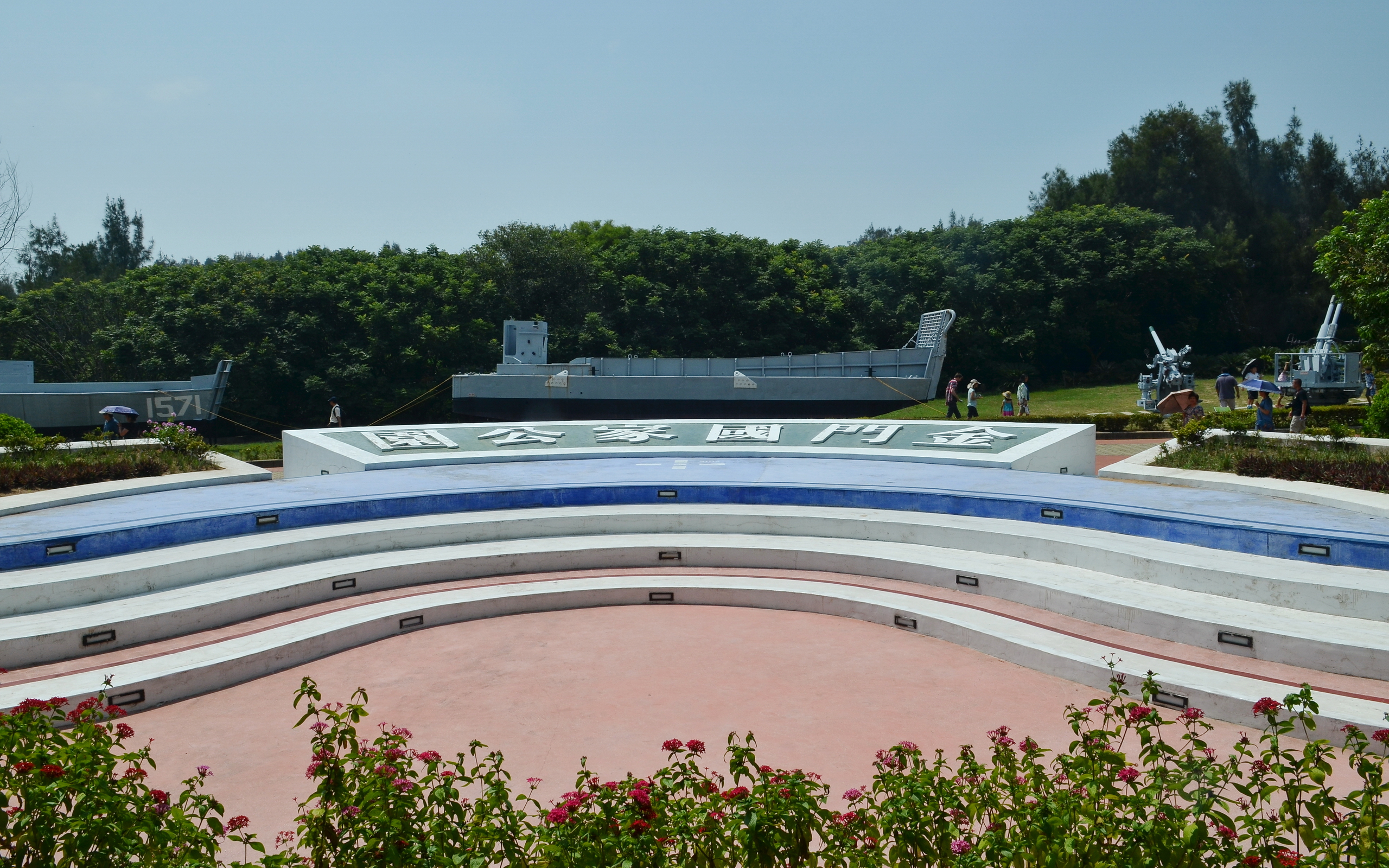 Kinmen National Park